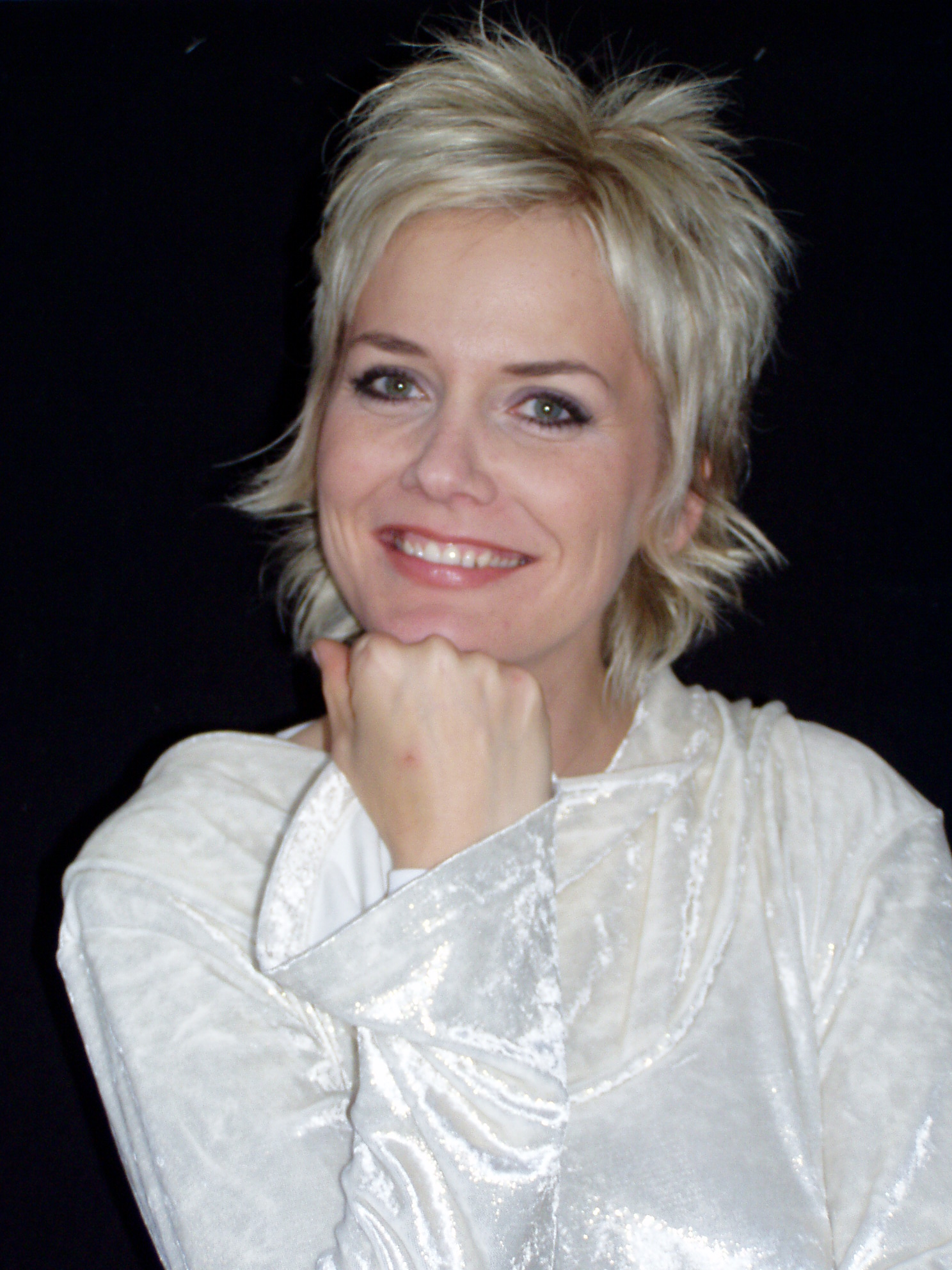 Inka Bause, german Singer